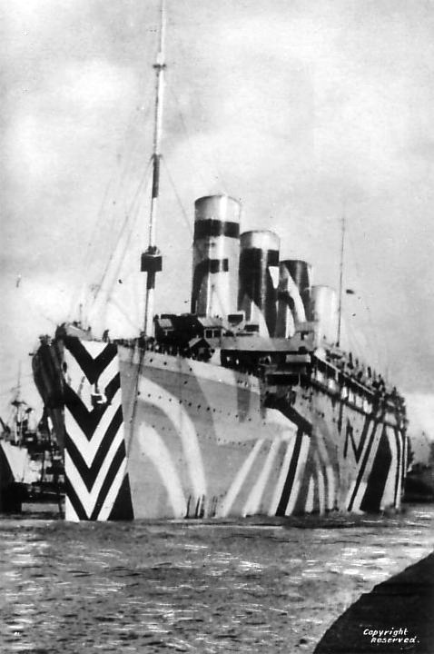 Postcard from RMS Olympic with "dazzle" paint pattern. As the postcard was likely first published prior to January 1, 1923, the image is asserted to be in the public domain. Crop and retouch of File:WSL Olympic(PC war).jpg.